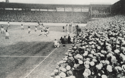 An image depicting an FA Cup game between West Ham United and Millwall at Upton Park in 1930.